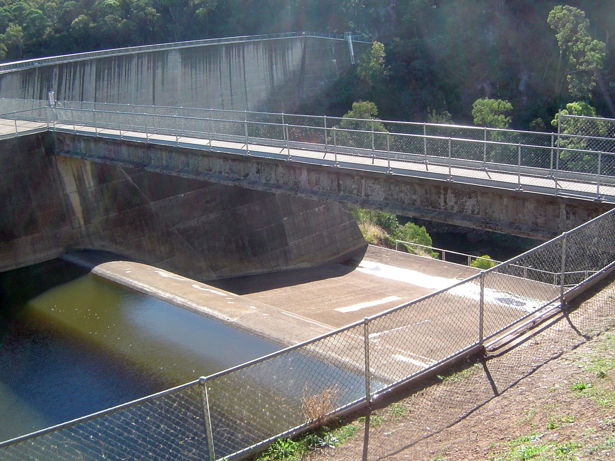 Lake Moogerah spillway with dam capacity at 99.5%.